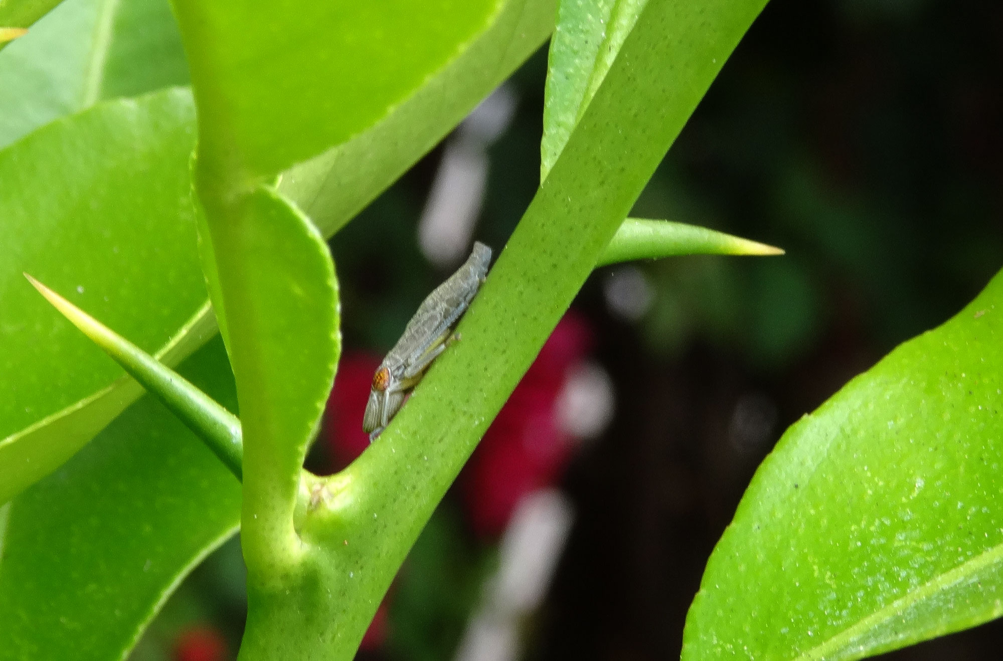 The nymph of a Sharpshooter, a type of Leafhopper. Found on a lime tree in San Diego, Ca.